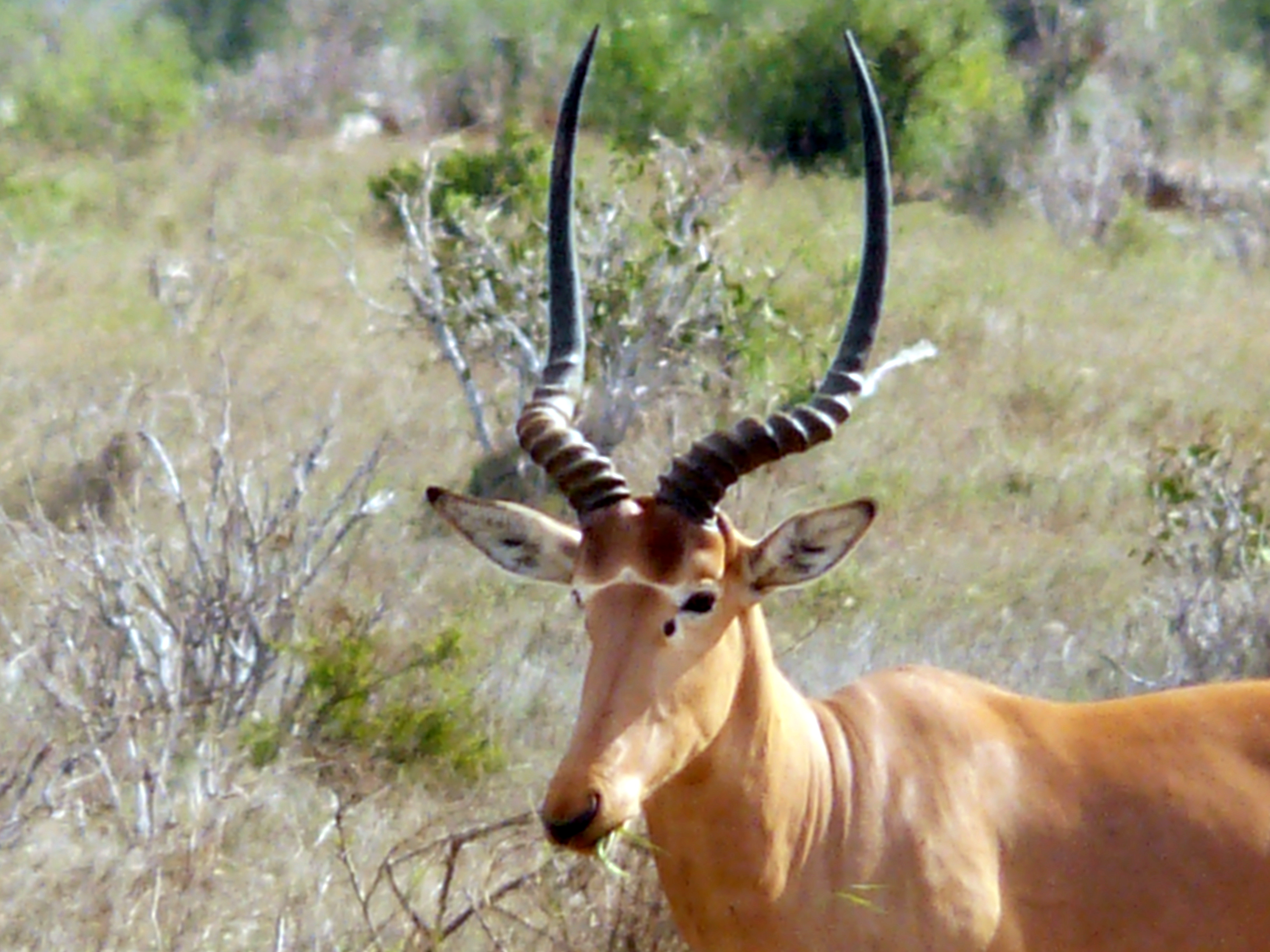 A hirola head with the sub-orbital glands clearly visible. (copyright James Probert)